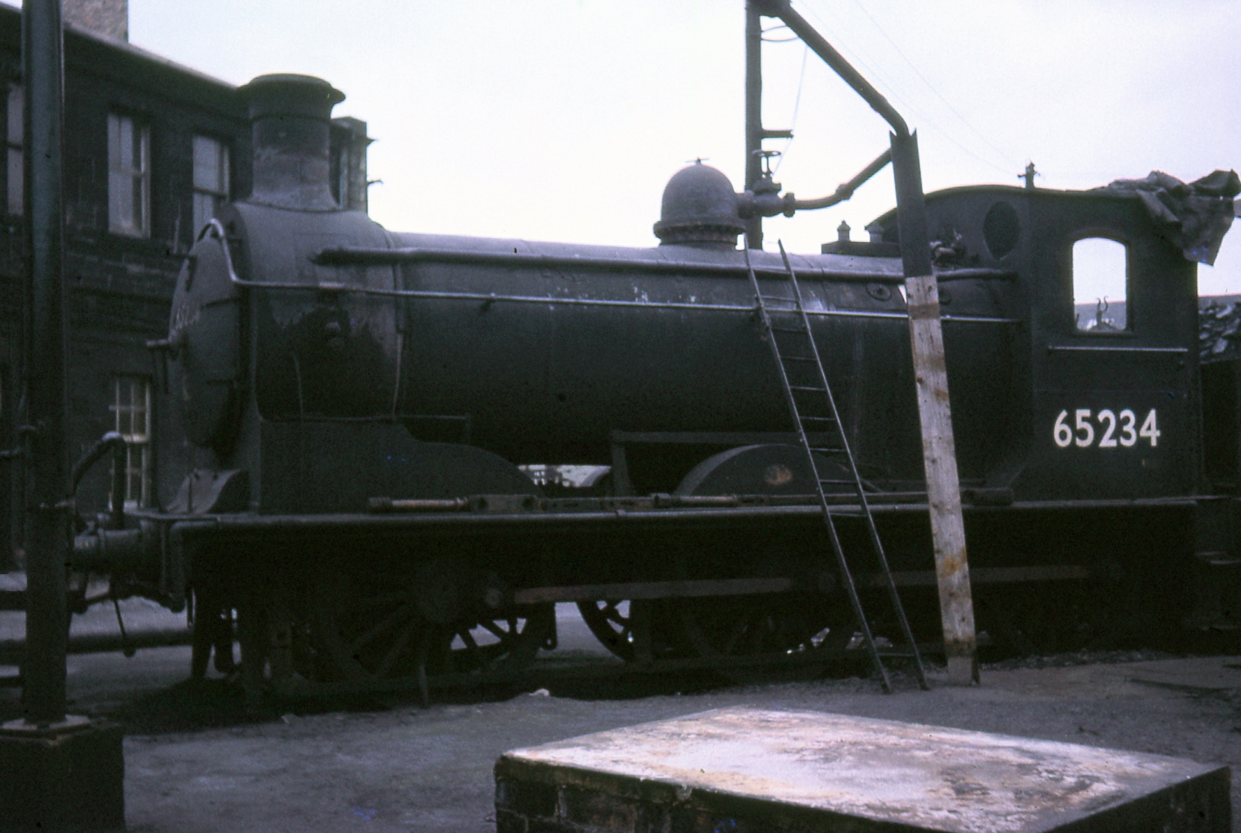 J36 0-6-0 No. 65234 (a sister locomotive to 65243/NBR No. 673 Maude) linked up as a stationary boiler at St Maragret's shed, Edinburgh